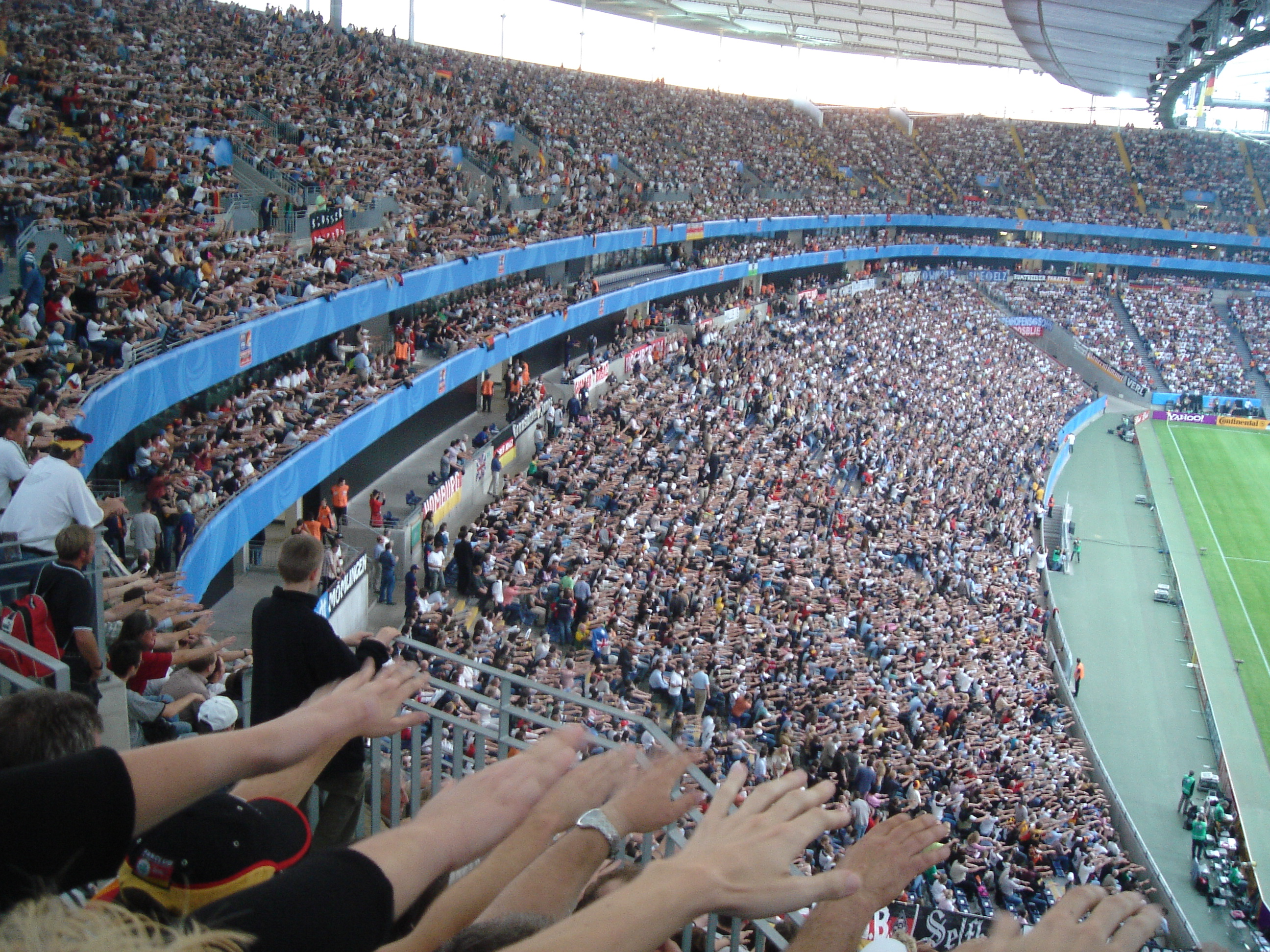 Stadium crowd performing "the wave" at the Confederations Cup 2005 in Frankfurt.